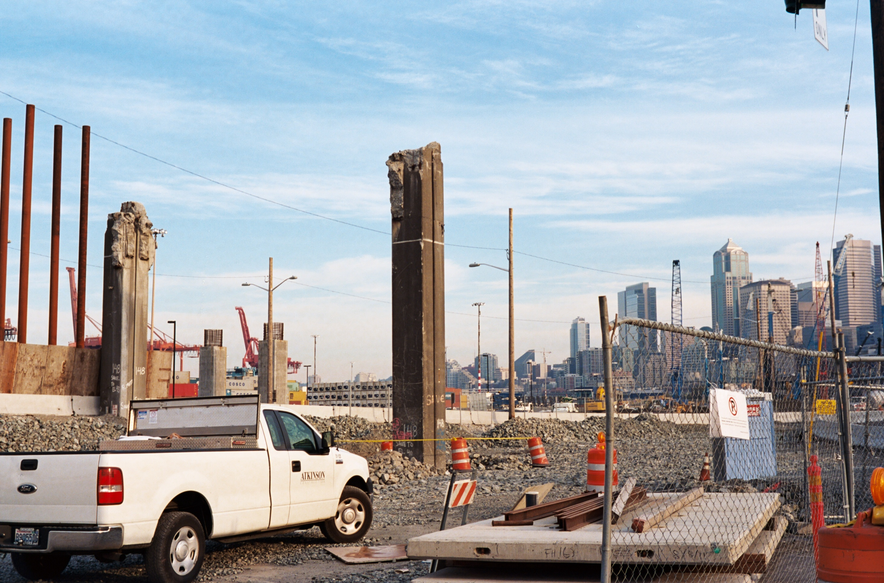 Construction area around Alaskan Way Viaduct replacement tunnel. Two columns from demolished portion of Viaduct. Near S. Royal Brougham Way and E. Frontage Road S., Seattle, Washington.